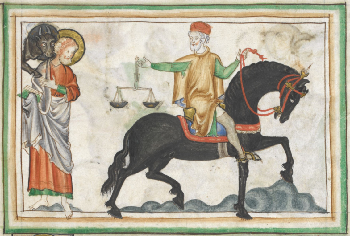 Folio 8r of an Apocalypse manuscript (Add MS 35166).It depicts Revelation 6:5-6. The artist matched each horseman with an evangelist. The ox is the symbol of Luke.